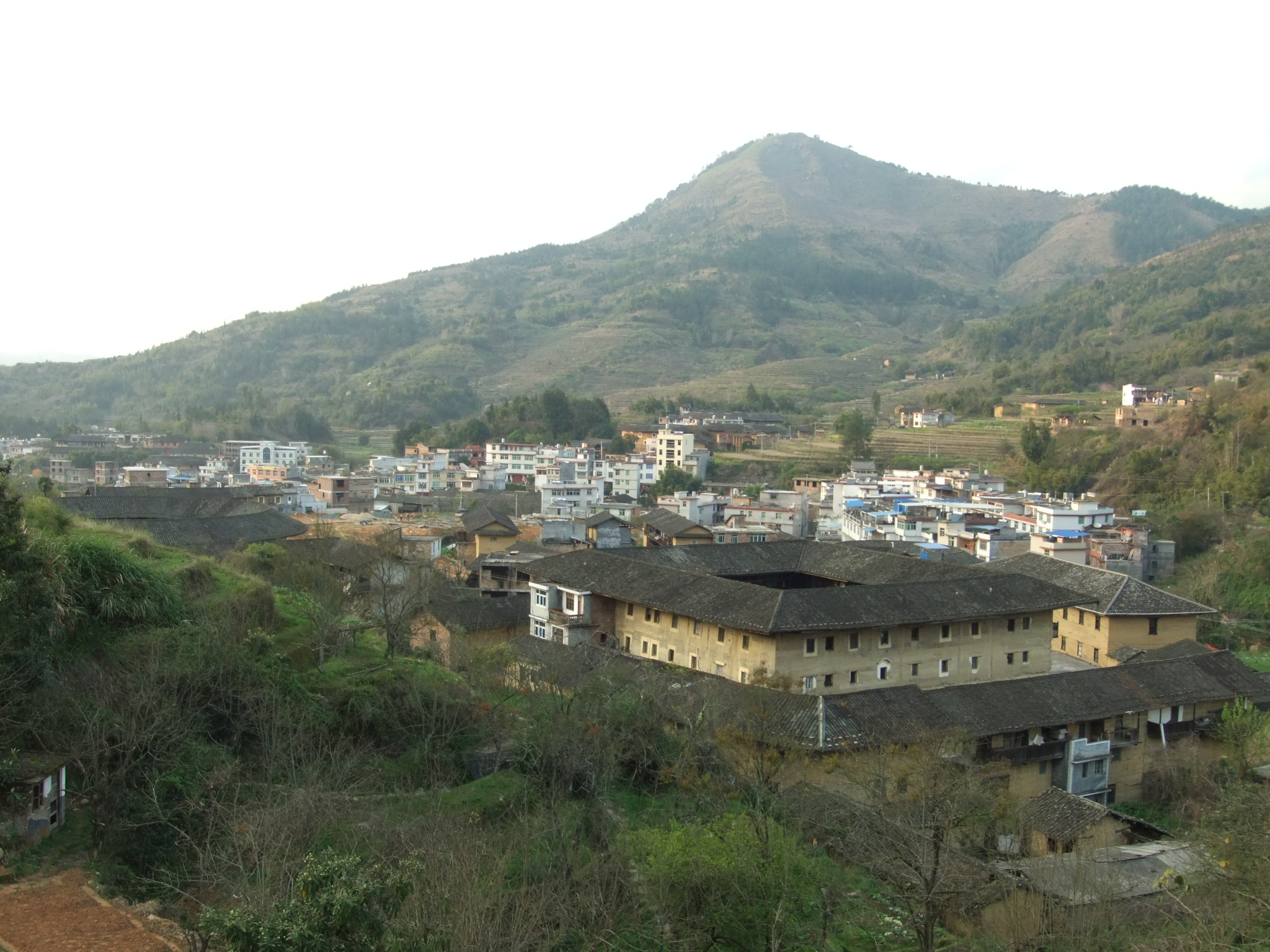 The central area of Gaotou Township (Yongding County, Fujian), seen from the new Hwy S319 that runs on high ground south-east of town. Early evening, with sunlight coming from the south-west.